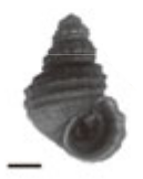 Black-ang white photo of an apertural view of the shell of Margarya monodi Dautzenberg & H. Fischer, 1905 (KIZ-13), Lake Dianchi. Scale bar is 1 cm.